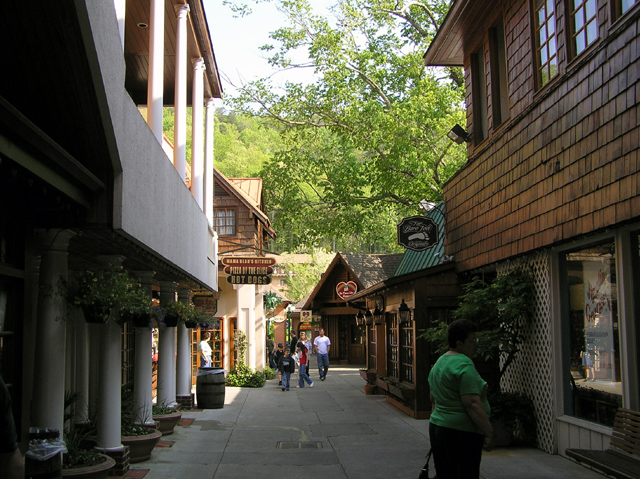 Gatlinburg Tennessee. Photo is provided by me, Zereshk, when I was there for a conference in May, 2005. .